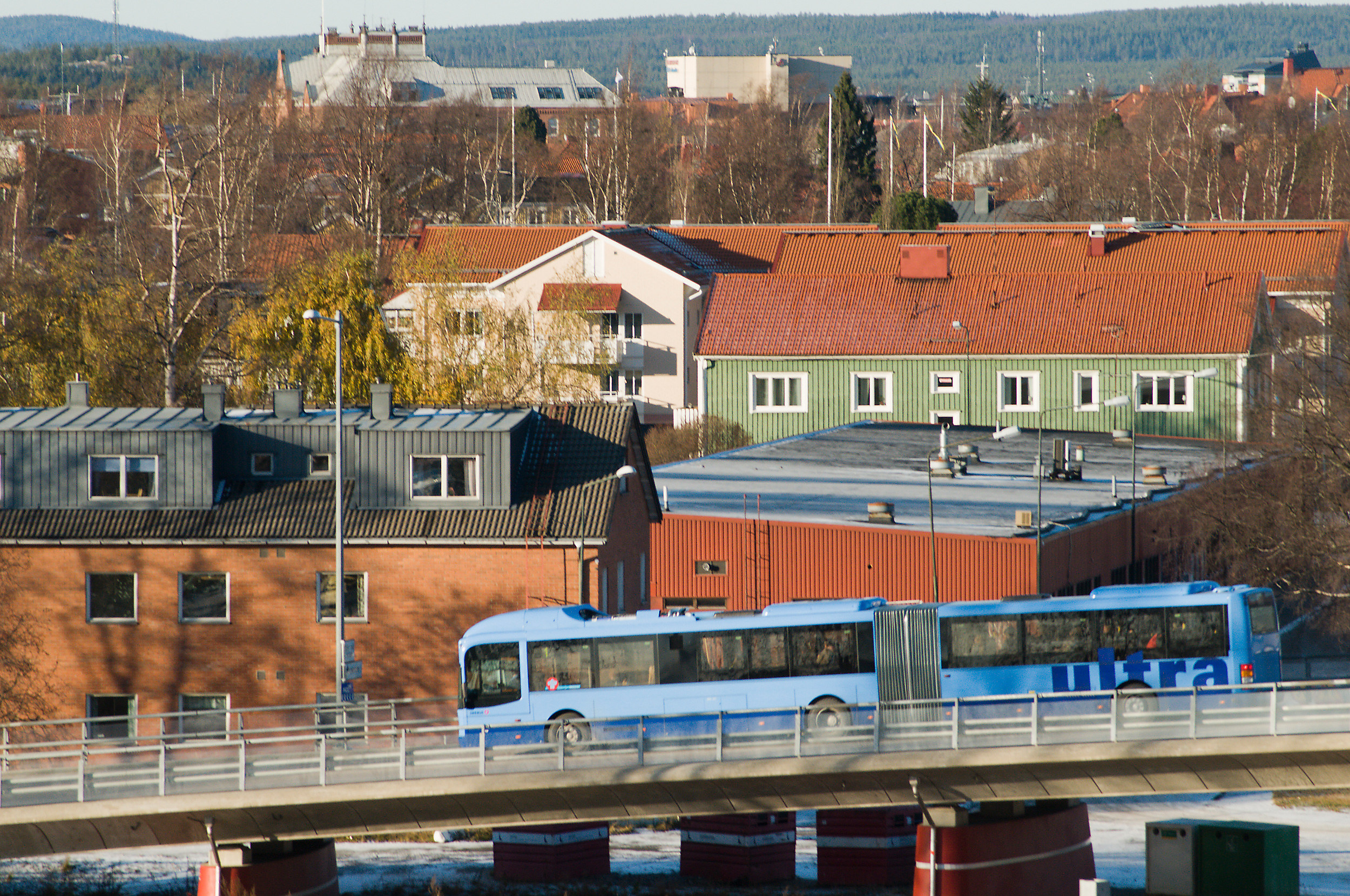 Volvo 8500 LEA bus (#6907) with Volvo B9S chassis in Umeå, Sweden. Umeå Lokaltrafik (Ultra).